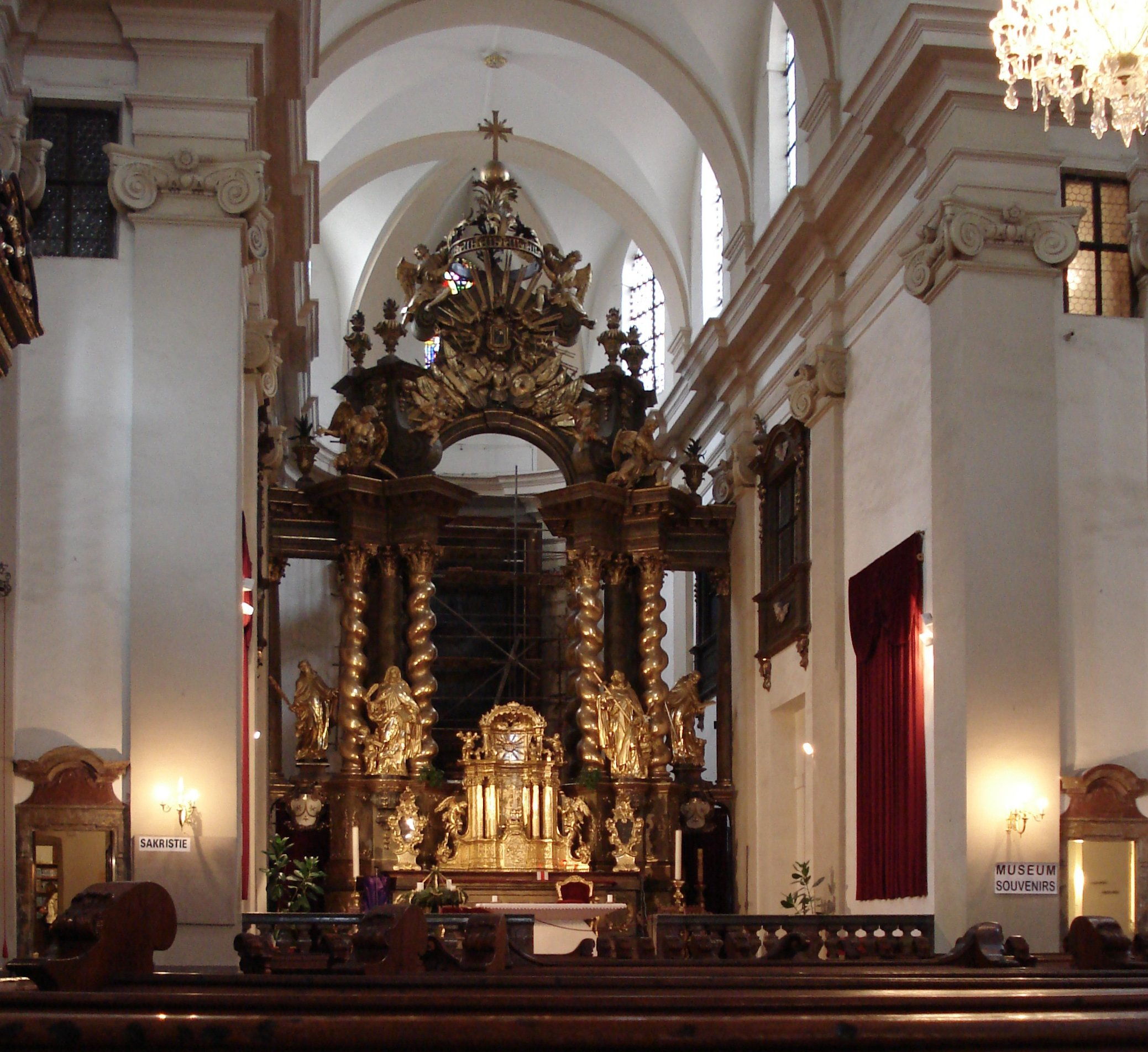 Altar of the church of Our Lady of the Victory, Mala Strana, Prague.